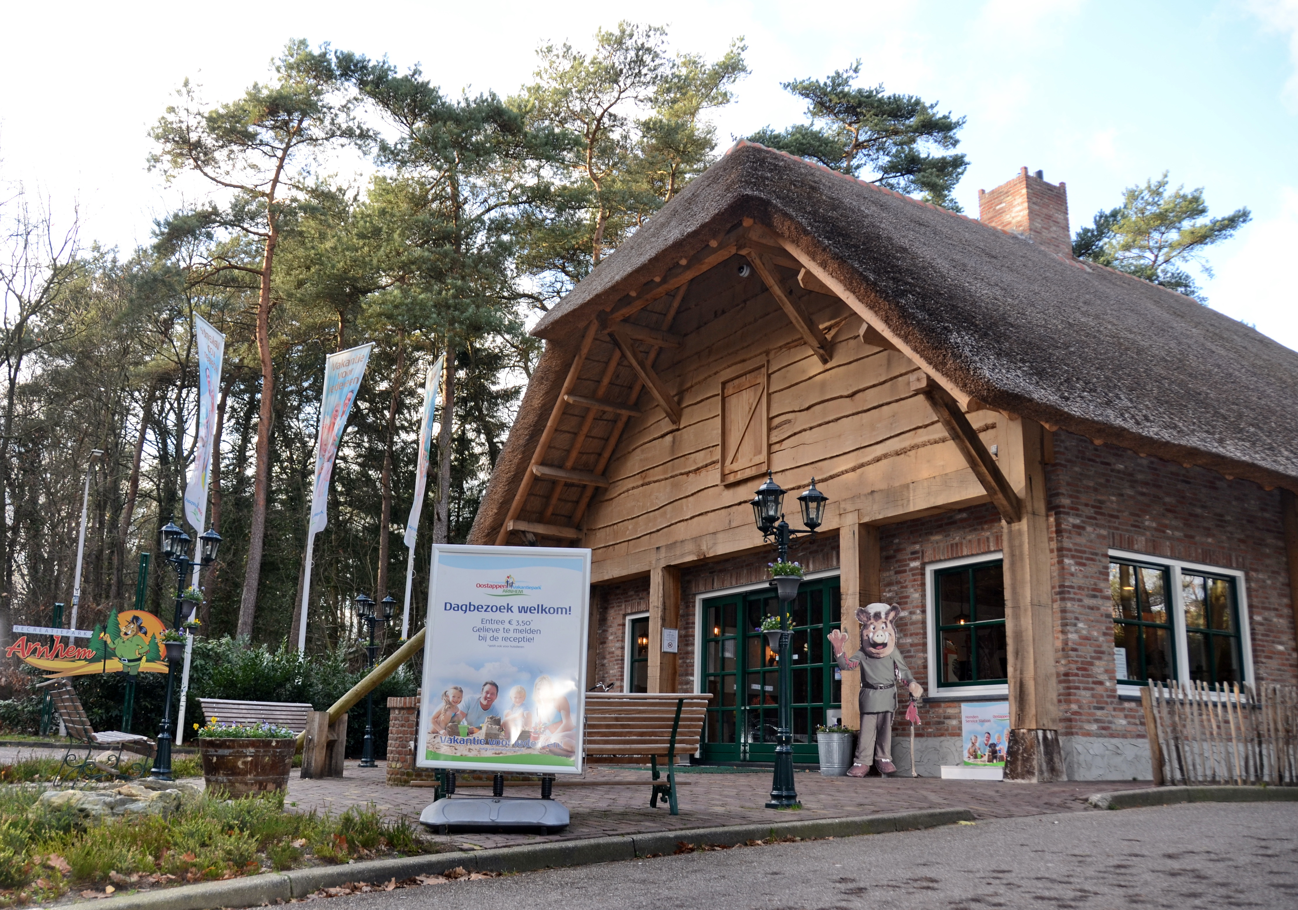 The Camping Arnhem reception building at 25/11 with a warm welcome to visitors